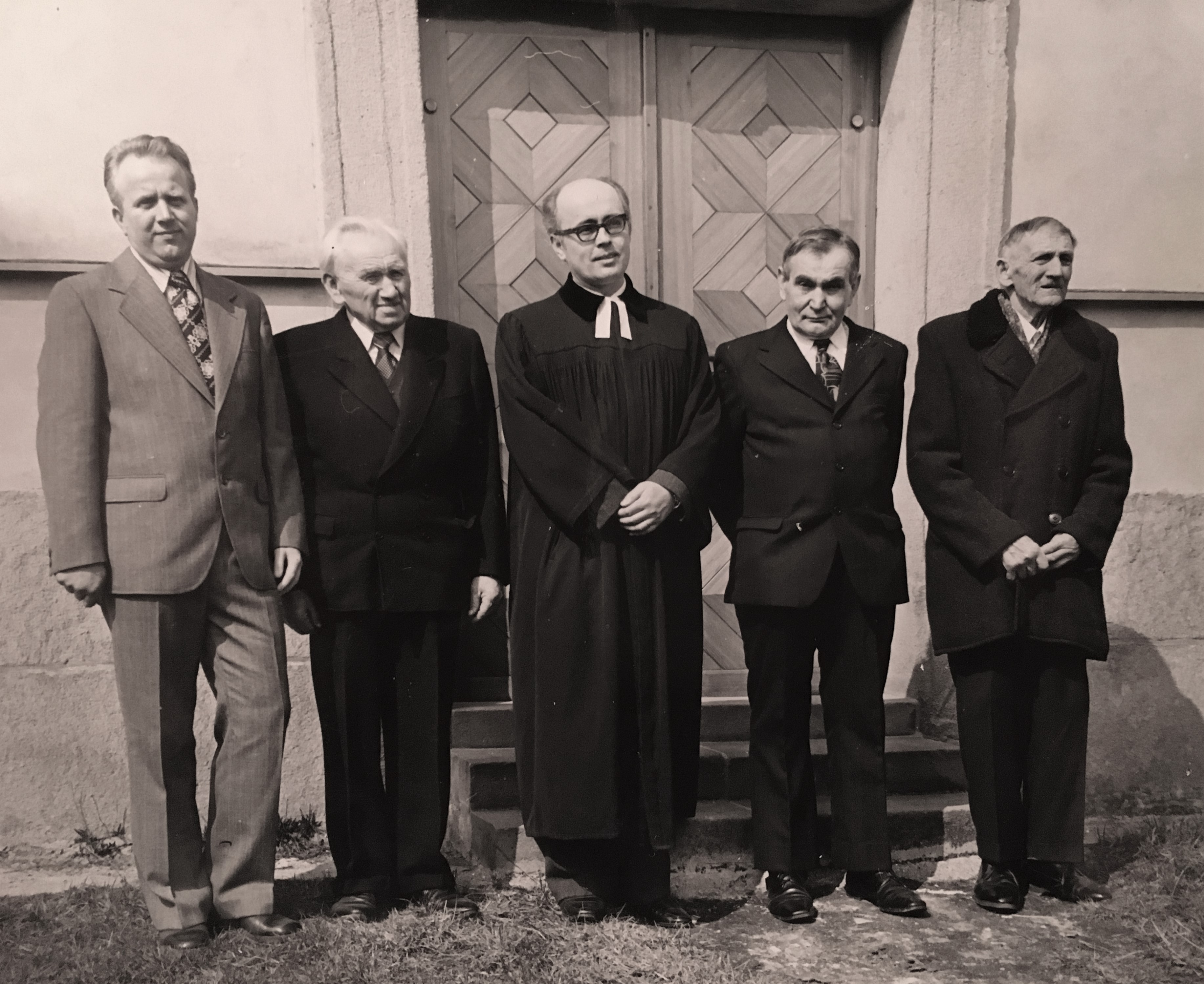 Pastor Pavel Smetana and the leading elders of the evangelical church of Czech brethren in Hošťálková in 1978.